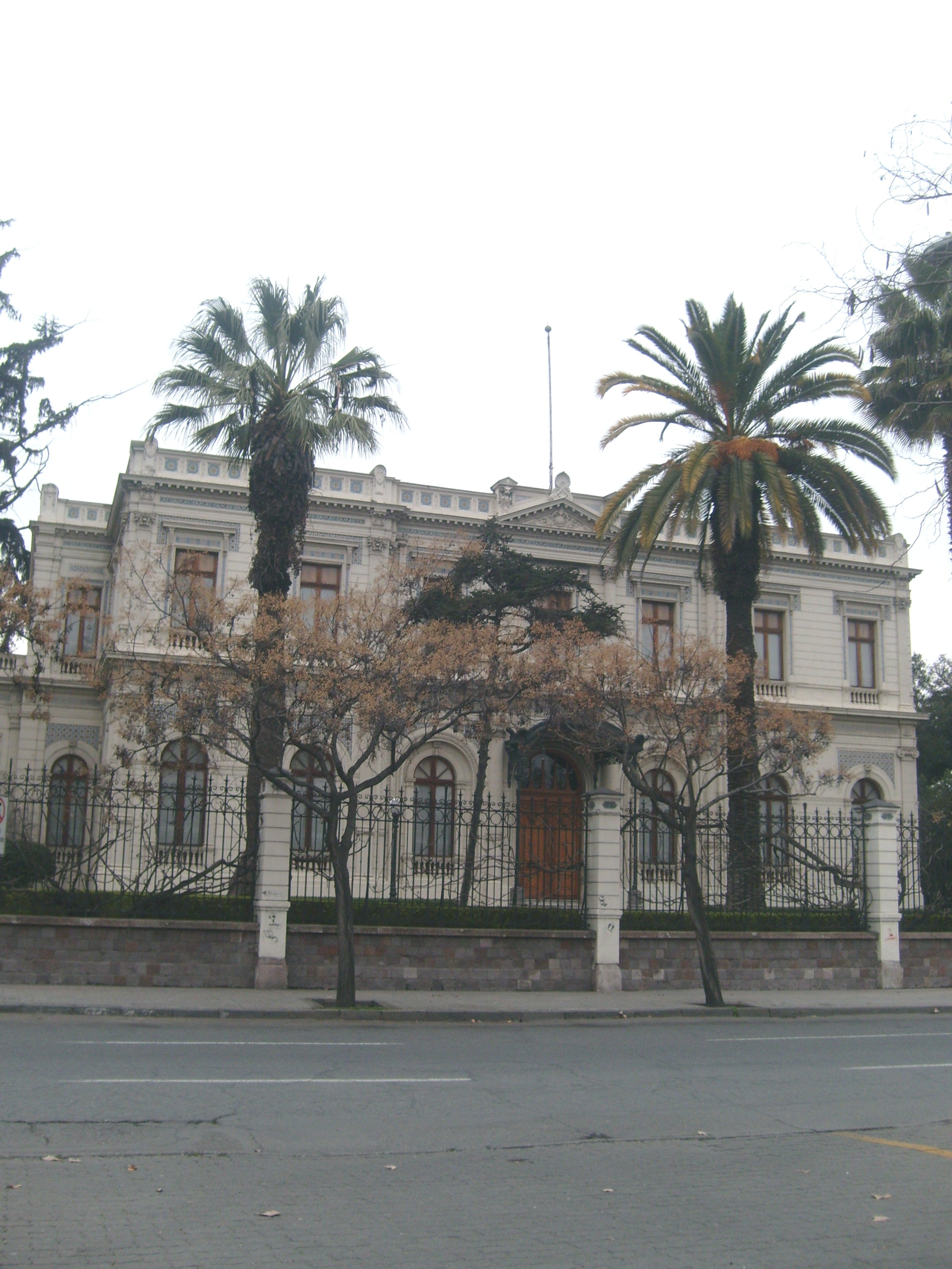 Cousiño Palace Santiago, Chile